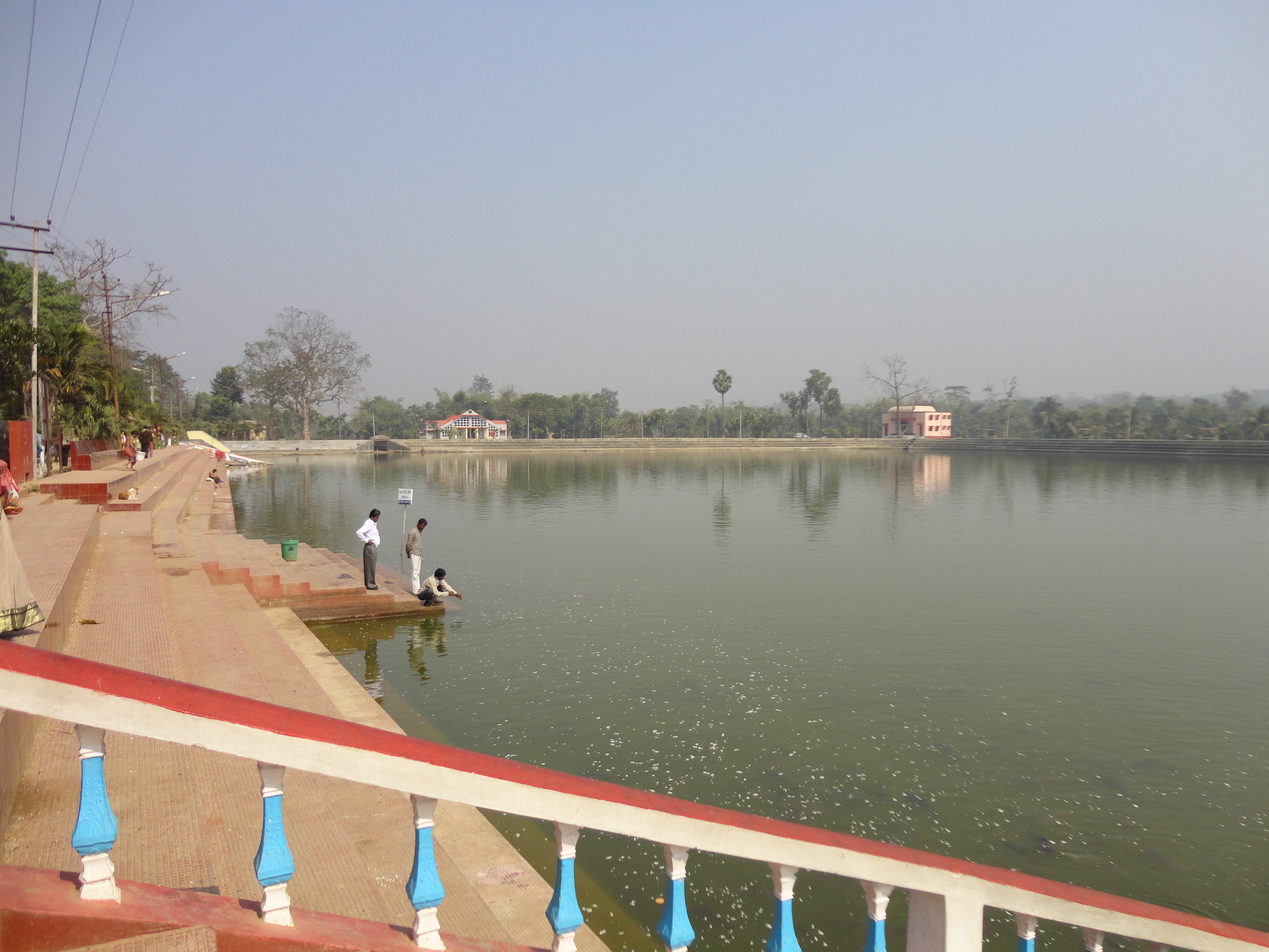 Kalyan Sagar (Matar Bari)